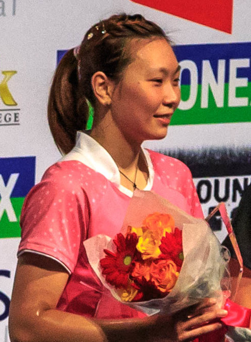 2014 BWF US Open Grand Prix Gold Badminton Championships...WS Final...Beiwen Zhang (USA) def Kana Ito (JPN) 8 & 17...